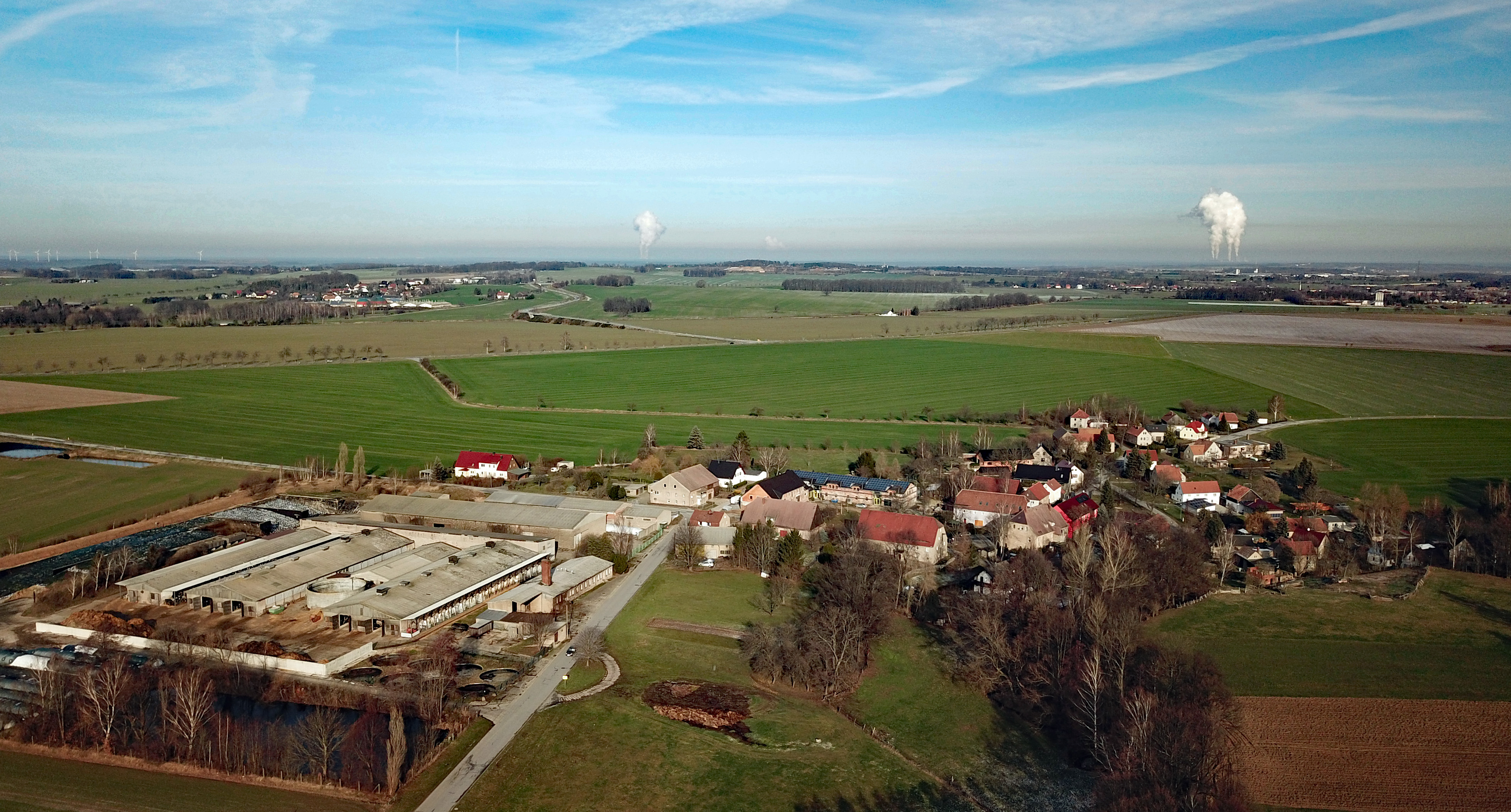 Techritz (Doberschau-Gaußig, Saxony, Germany) Hornjoserbsce: Powětrowy wobraz Ćěchorjec